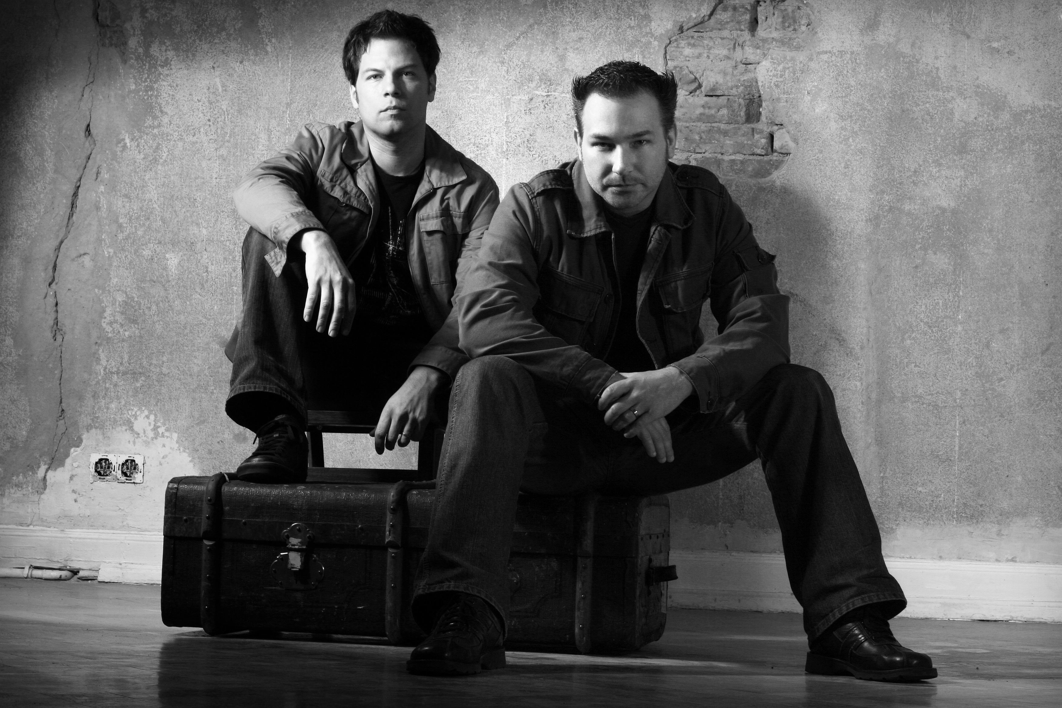 Band members of the german electropop band "endanger". Marc Pollmann (left) and Rouven Walterowicz (right)